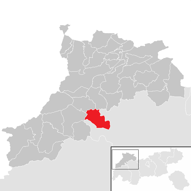 District Reutte